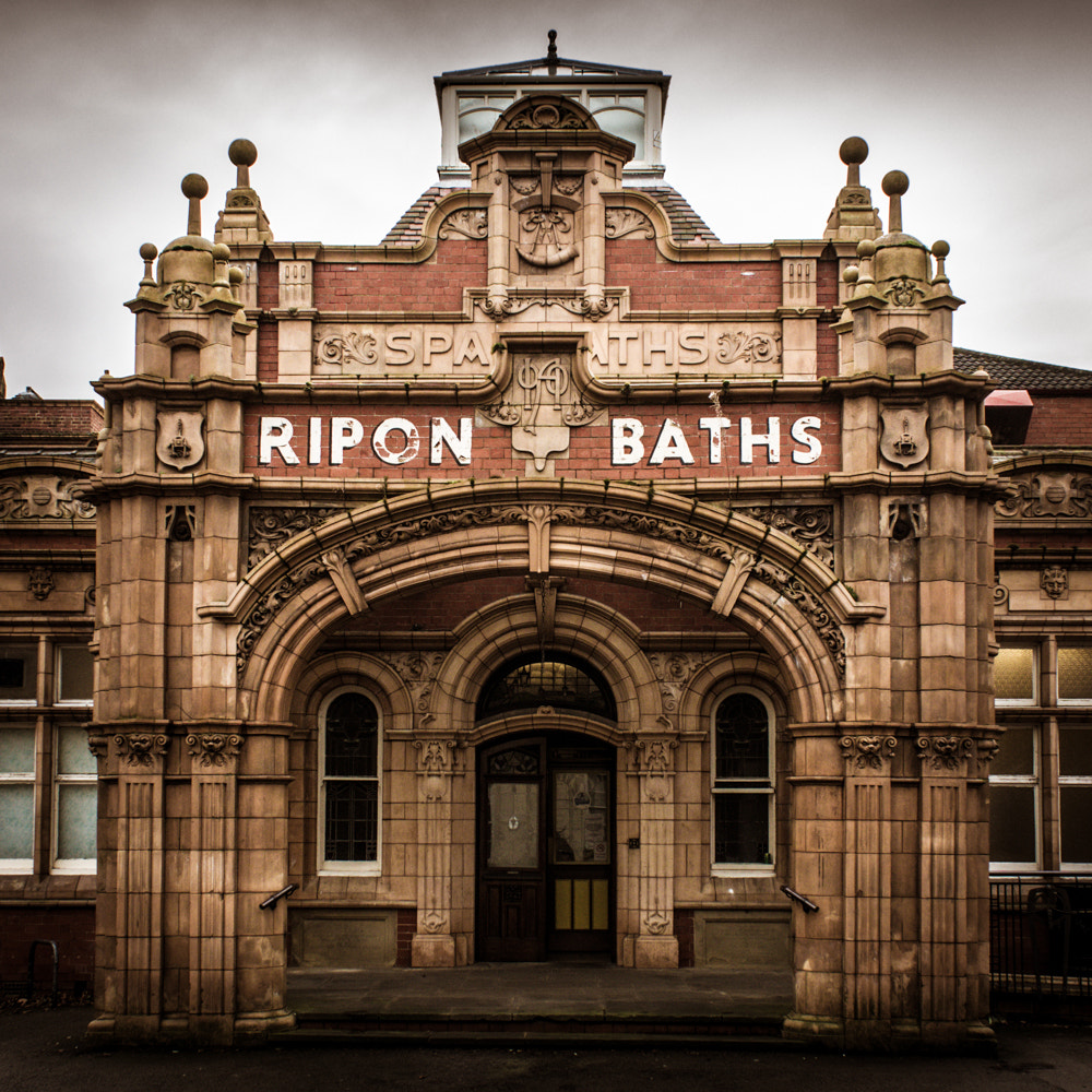 500px provided description: Victorian Bath House in Ripon in the UK [#Architecture ,#Victorian ,#Bath House]